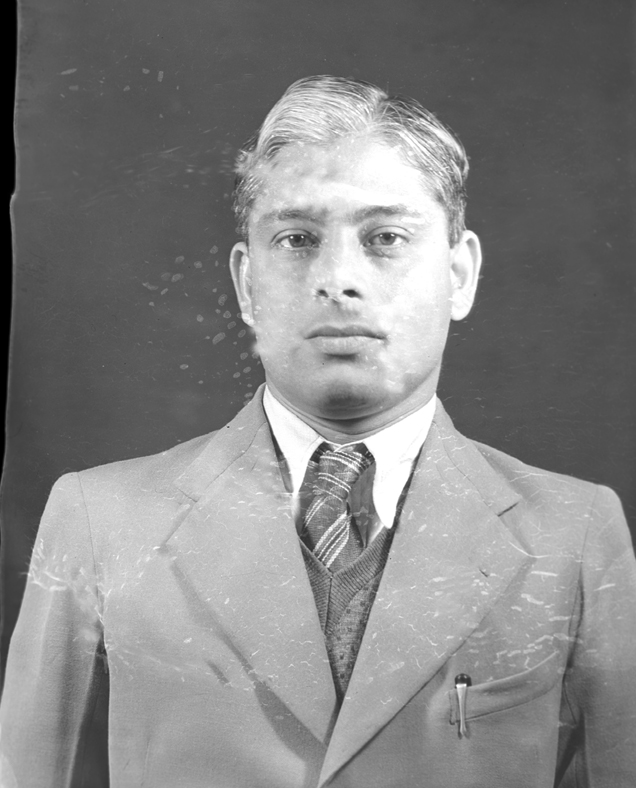 Studio/5-2-53, A32(r) Shri K. Rangachari